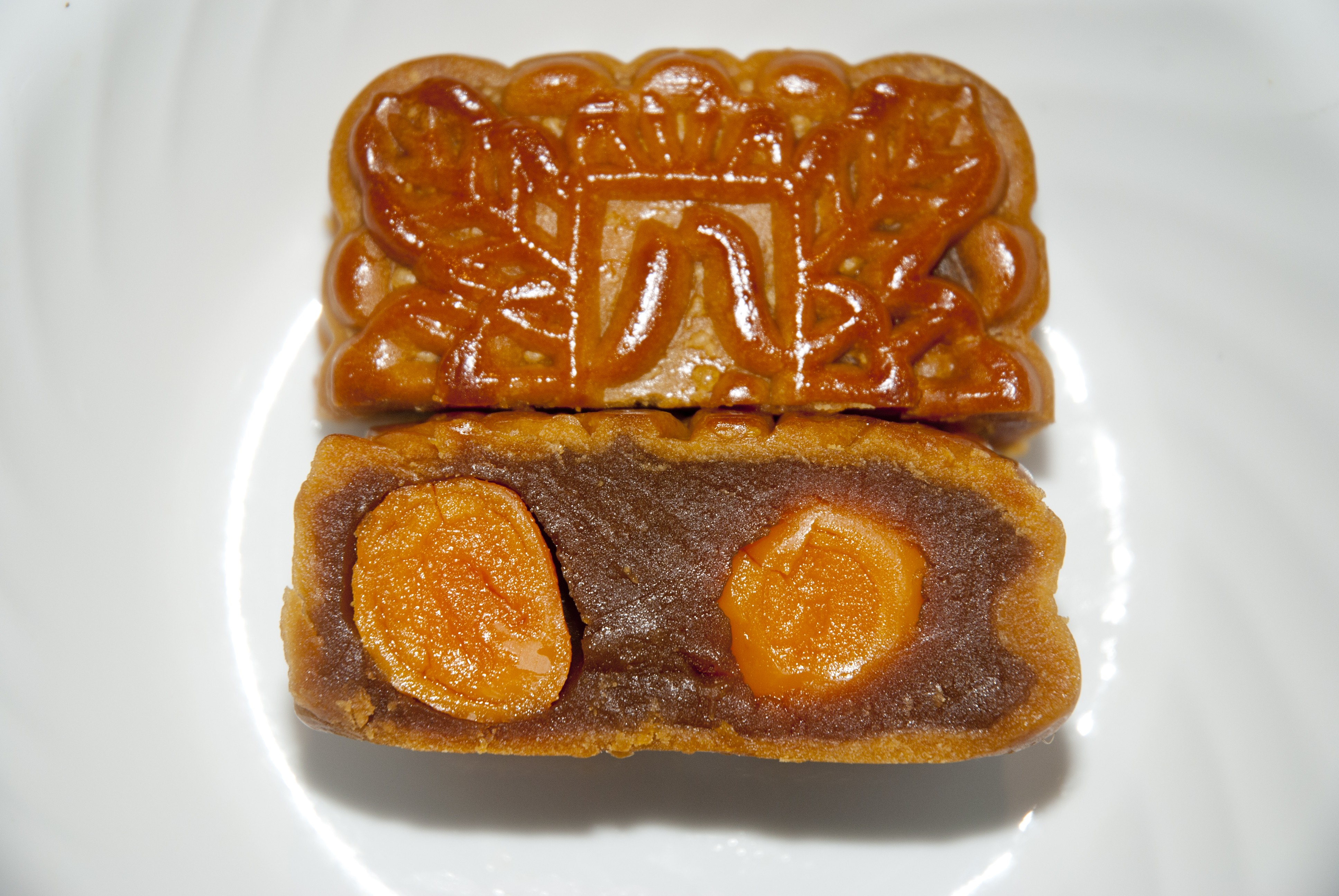 Mooncake with double yolk and lotus seed paste (including salted duck egg yolk and lotus seed paste as fillings, whereas cereal powder as an ingredient on surface)